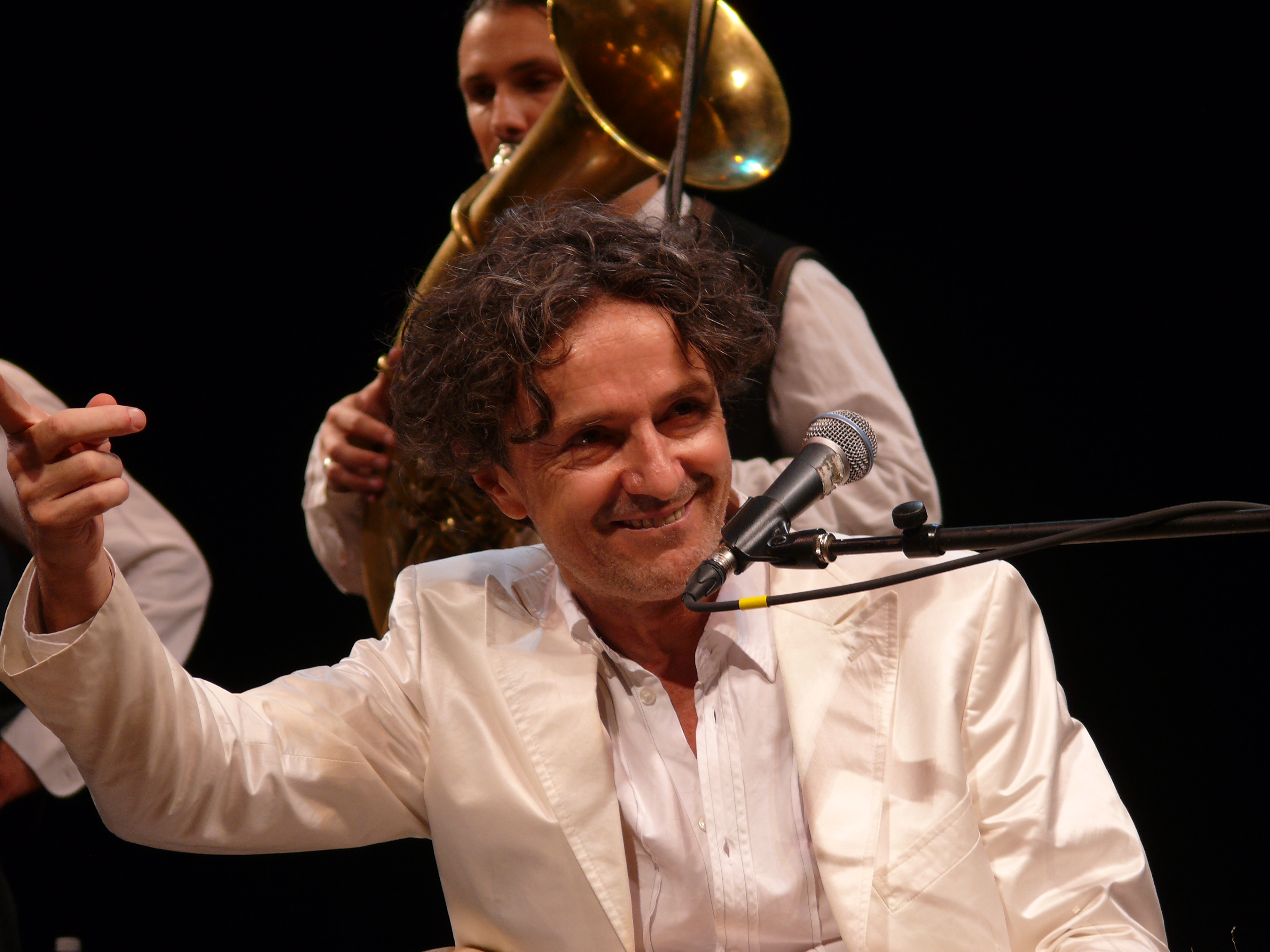 Composer Goran Bregovic, performing in New York City, 2008